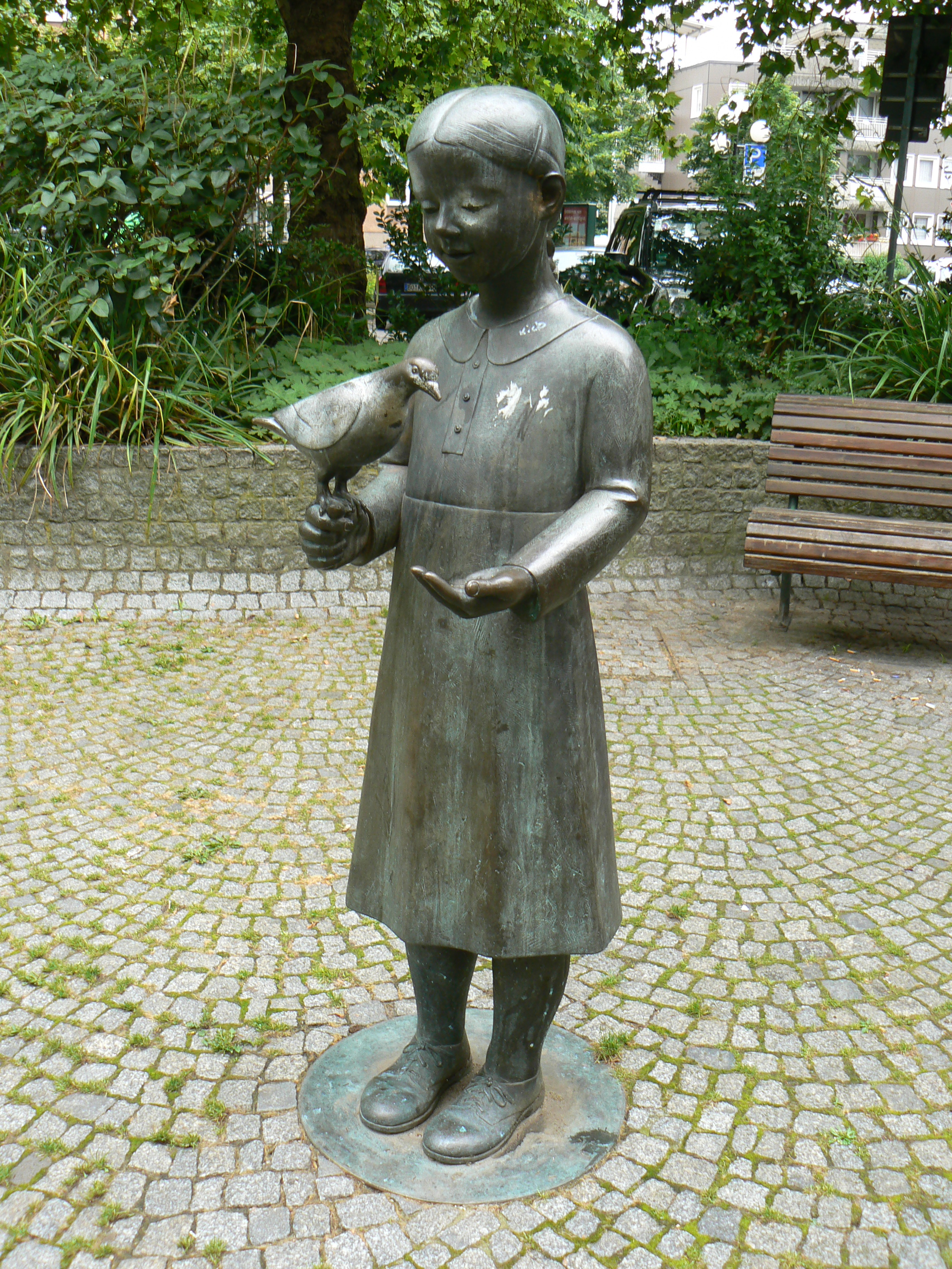 Sculpture:Mädchen mit Taube (1990) by Anette Wittkamp-Fröhling in Herten/Germany